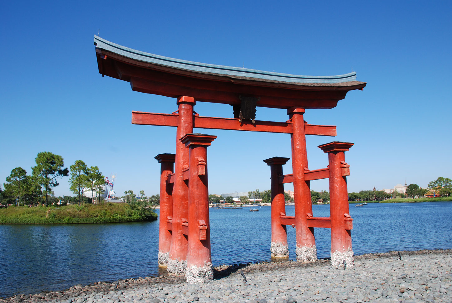 EPCOT - Torii on the shore of the World Showcase Lagoon